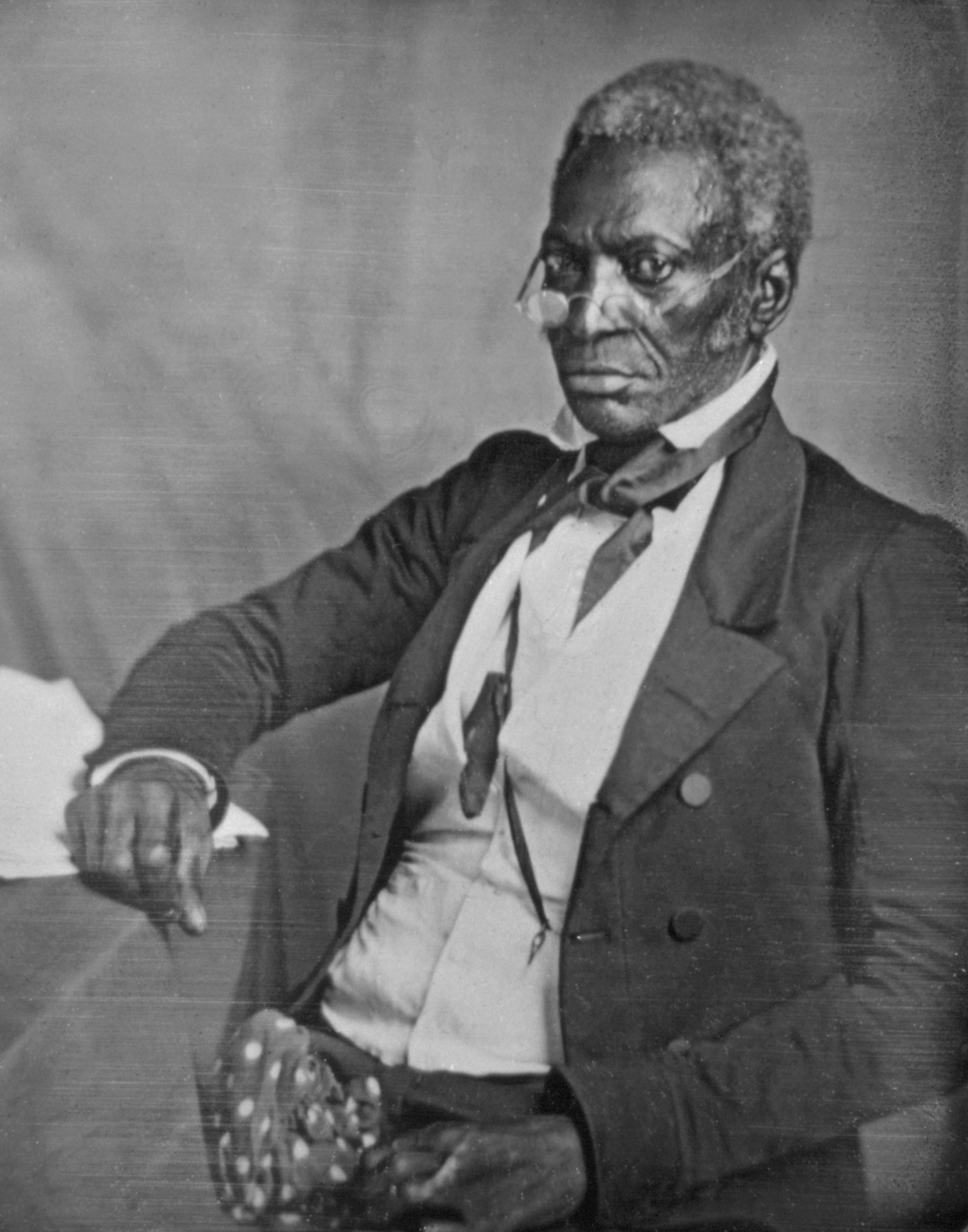 John Hanson, three-quarter length portrait, three-quarters view, wearing glasses, seated at desk